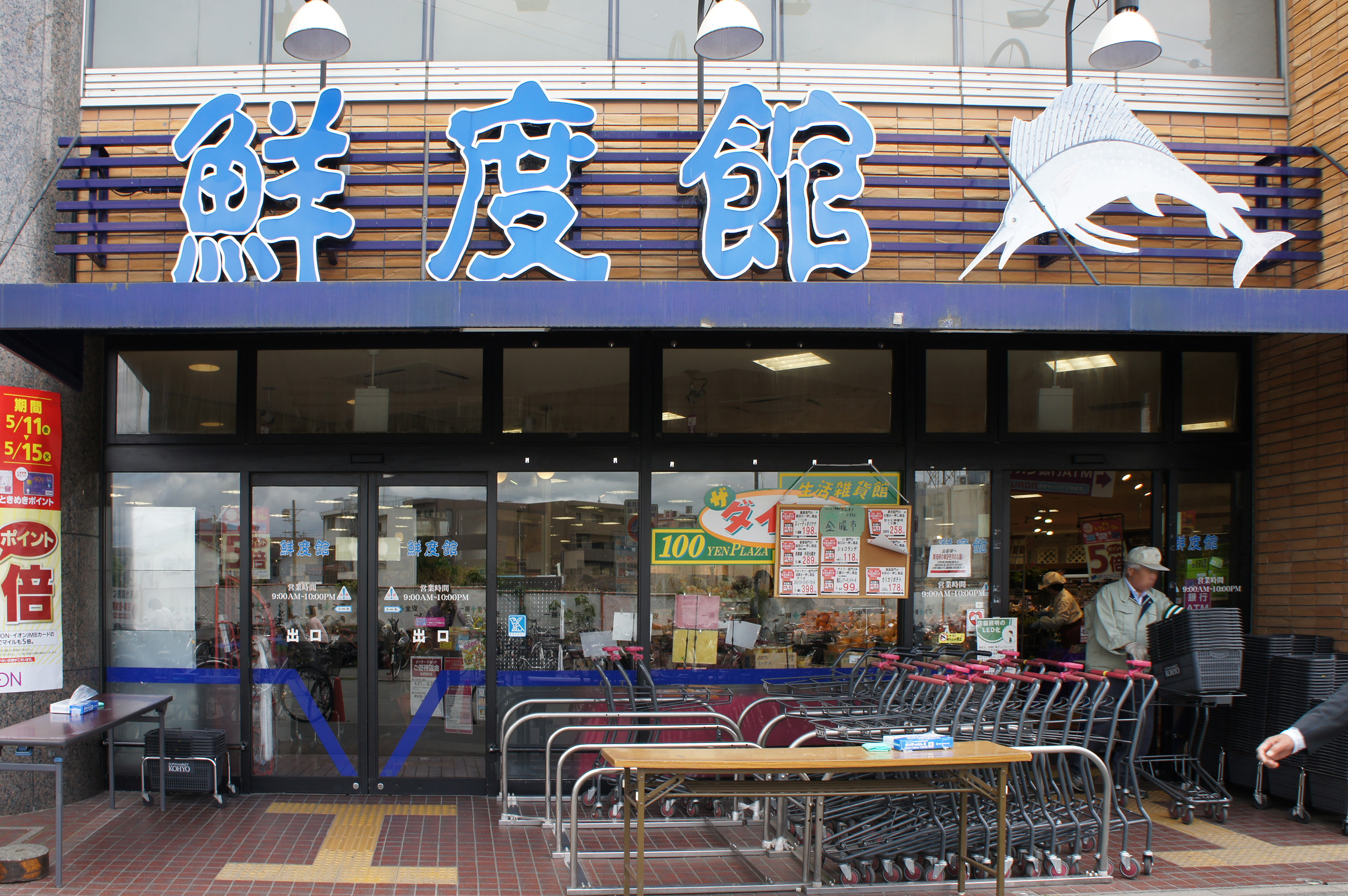 Sendokan Sonoda, 5-140-1 Higashi-Sonodacho Amagasaki-City Hyogo Japan.